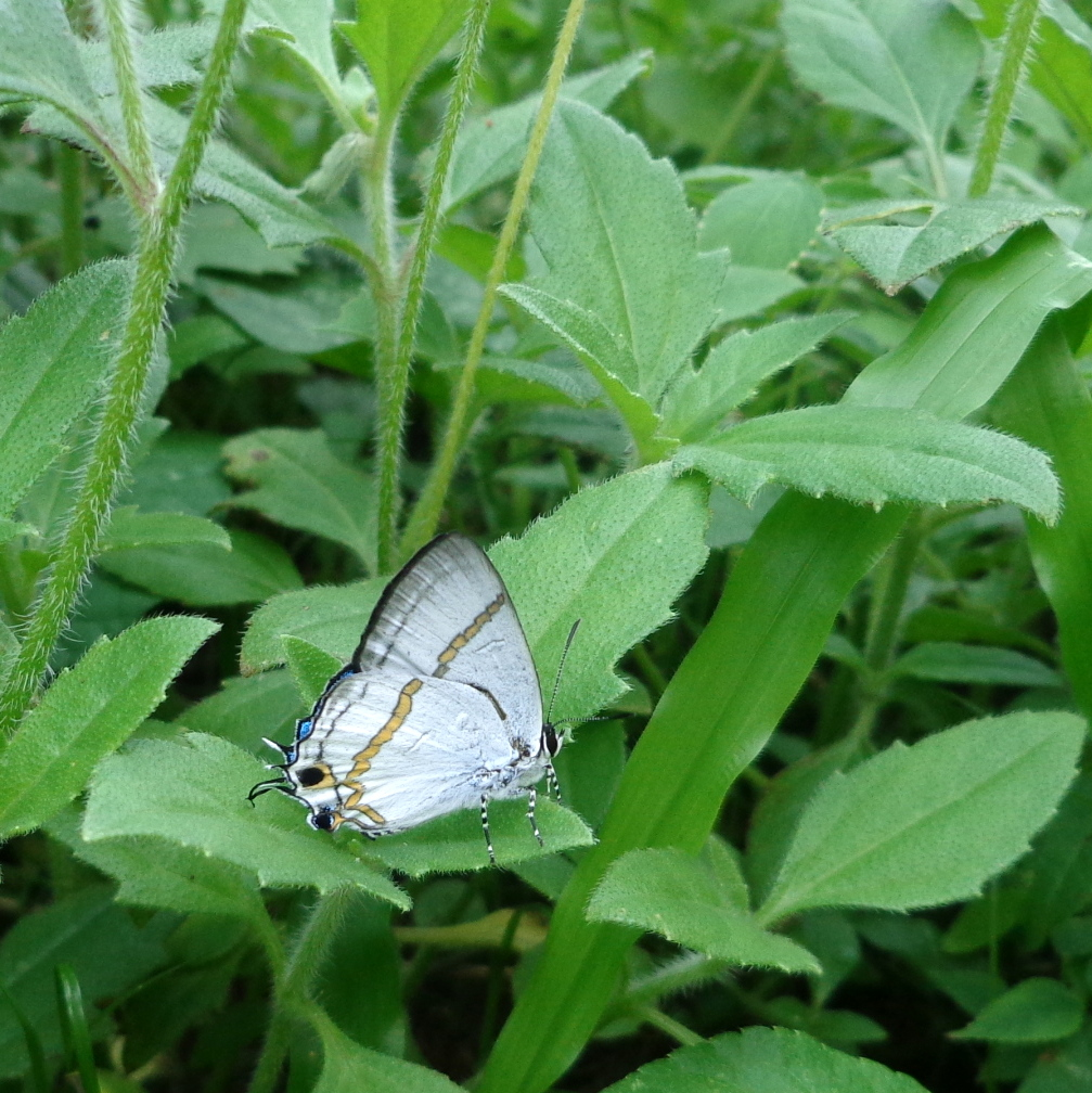 Paradeudorix eleala, at rest.